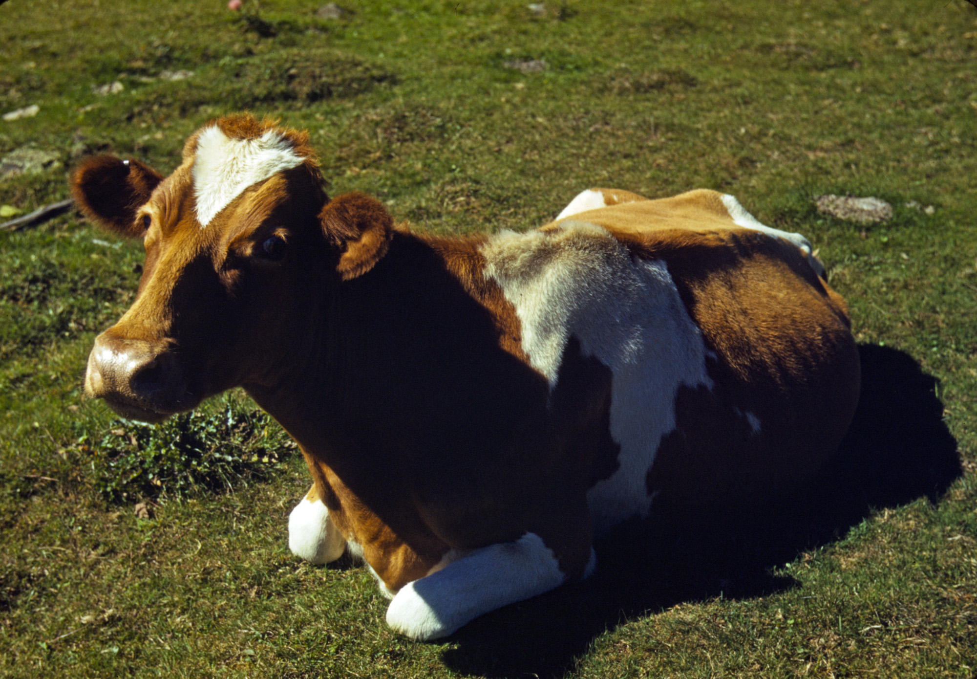 TITLE: [Guernsey cow or calf lying on the ground] CALL NUMBER: LC-USF35-533 [P&P] REPRODUCTION NUMBER: LC-DIG-fsac-1a34444 (digital file from original slide) LC-USF351-533 (color film copy slide) MEDIUM: 1 slide : color. CREATED/PUBLISHED: [between 1941 and 1942] NOTES: Title devised. B&w photograph in Lot 11671-29 is missing. Transfer; FSA-OWI; 1944. SUBJECTS: Cattle United States FORMAT: Slides Color PART OF: Farm Security Administration - Office of War Information Collection REPOSITORY: Library of Congress Prints and Photographs Division Washington, D.C. 20540 USA DIGITAL ID: (digital file from original slide) fsac 1a34444 CARD #: fsa1992000609/PP